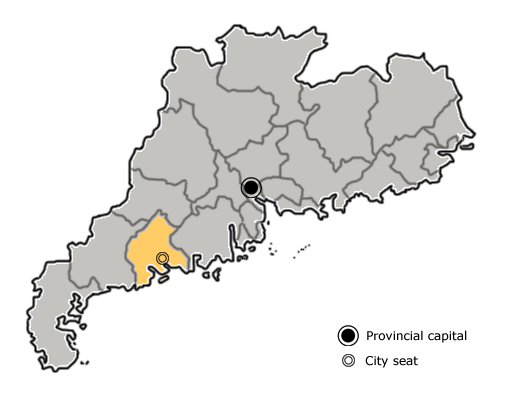 The prefecture-level city of Yangjiang is highlighted on this map of Guangdong province, People's Republic of China.